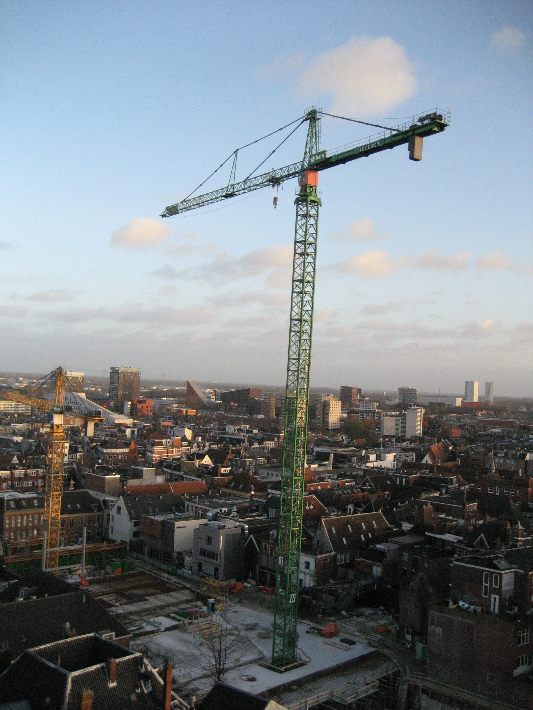 Tower crane (BAM) in Groningen (the Netherlands), Jan. 2015